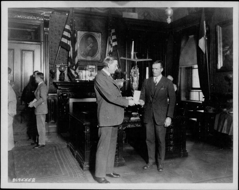 "Godfrey Cabot presenting a trophy to Secretary of the Navy" (original caption).